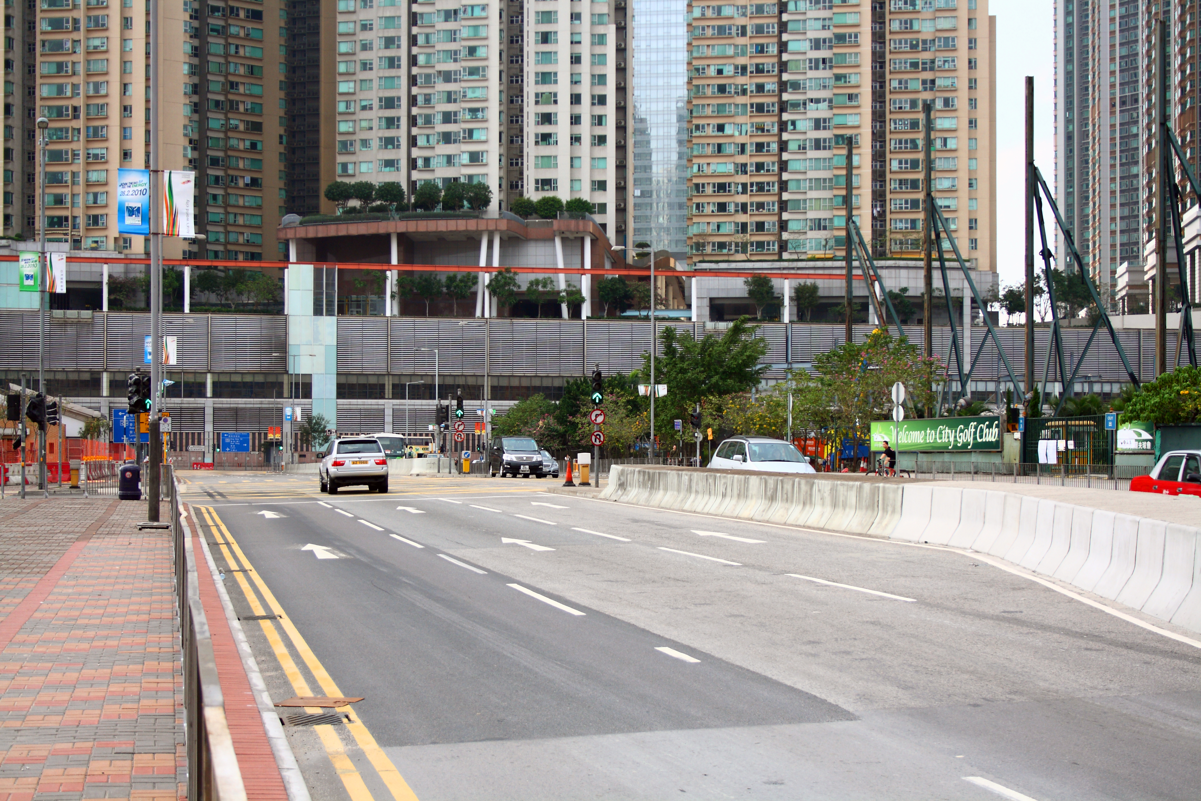 A part of Wui Cheung Road which have been closed since 2-1-2011